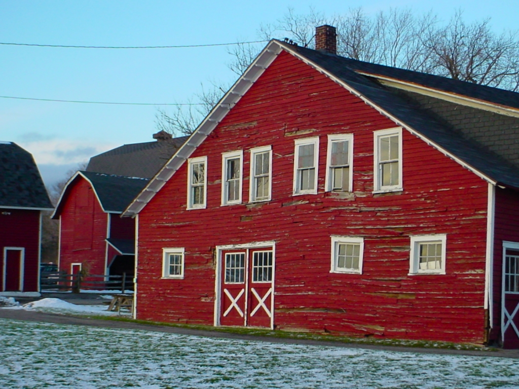 I took this photo on November 23, 2005 with a Sony Cyber-shot DSC-P50.